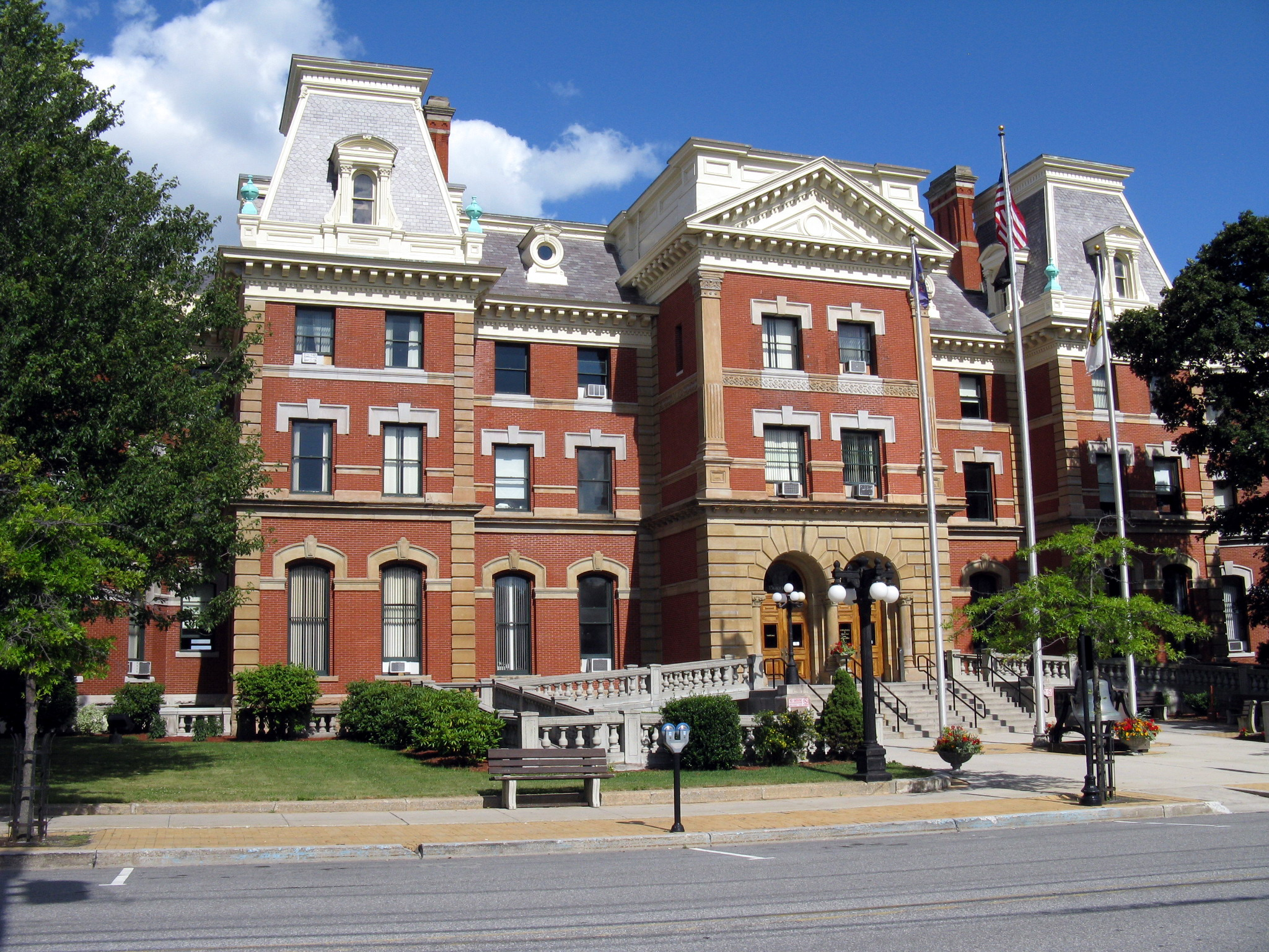 The Cambria County Courthouse in Ebensburg, Pennsylvania is listed on the National Register of historic Places.